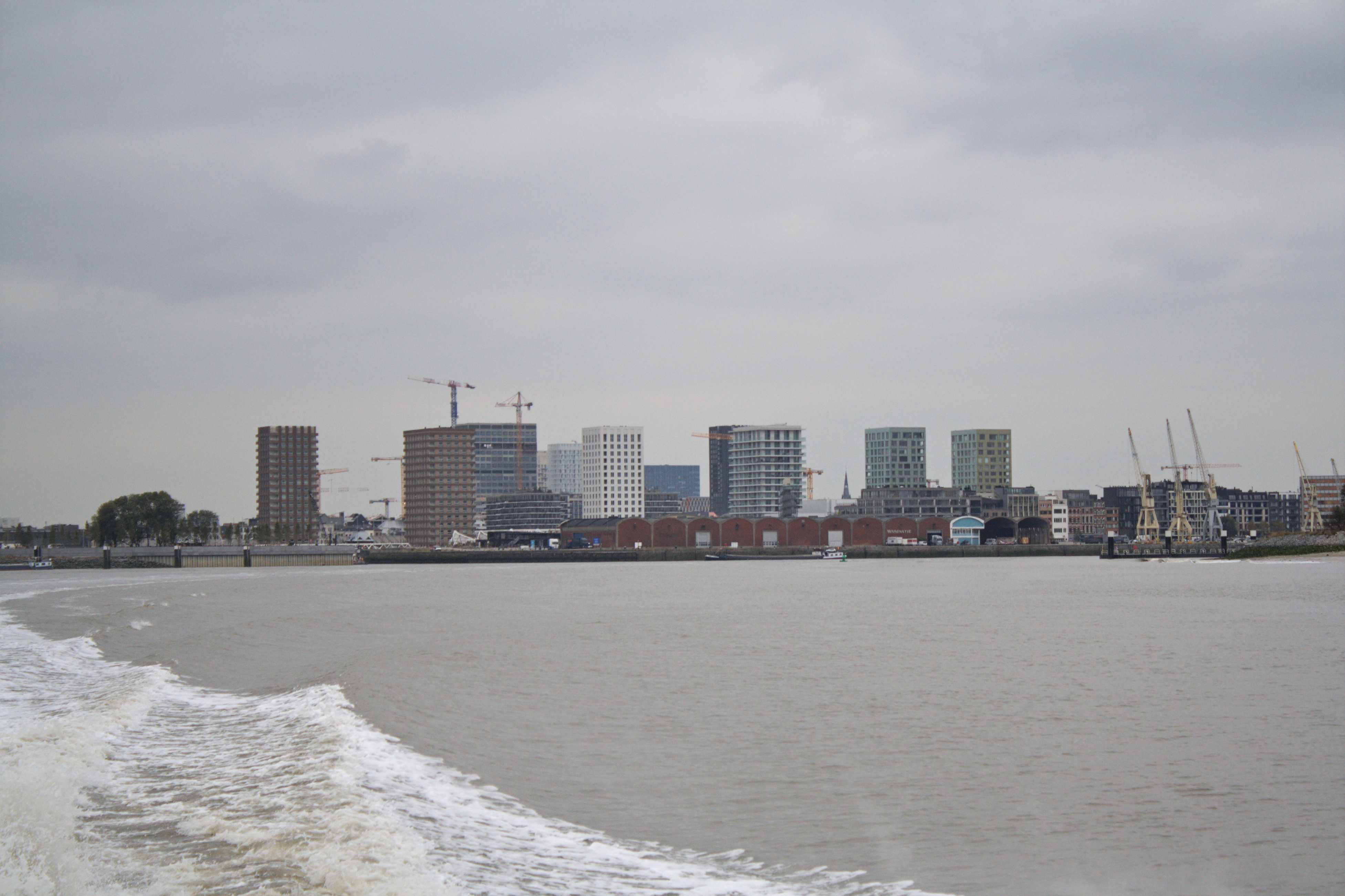 'Het Eilandje' in Antwerp seen from the river Scheldt, Oktober 2018. Аҧсшәа: Het Eilandje in Antwerpen gezien vanaf de Schelde, oktober 2018.